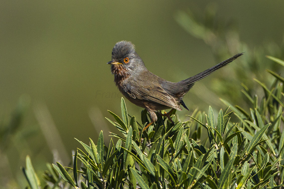 Male Dartford warbler - Arenzano - Italy_322